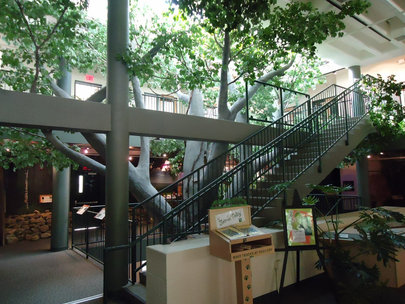 Interior view of the main lobby at the Trailside Nature & Science Center in Watchung Reservation in Mountainside, New Jersey. The tree is artificial.